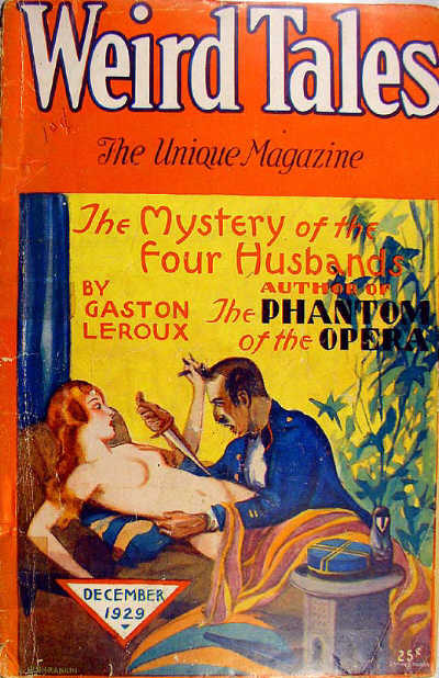 Cover of the pulp magazine Weird Tales (December 1929, vol. 14, no. 6) featuring The Mystery of the Four Husbands by Gaston Leroux. Cover art by Hugh Rankin.